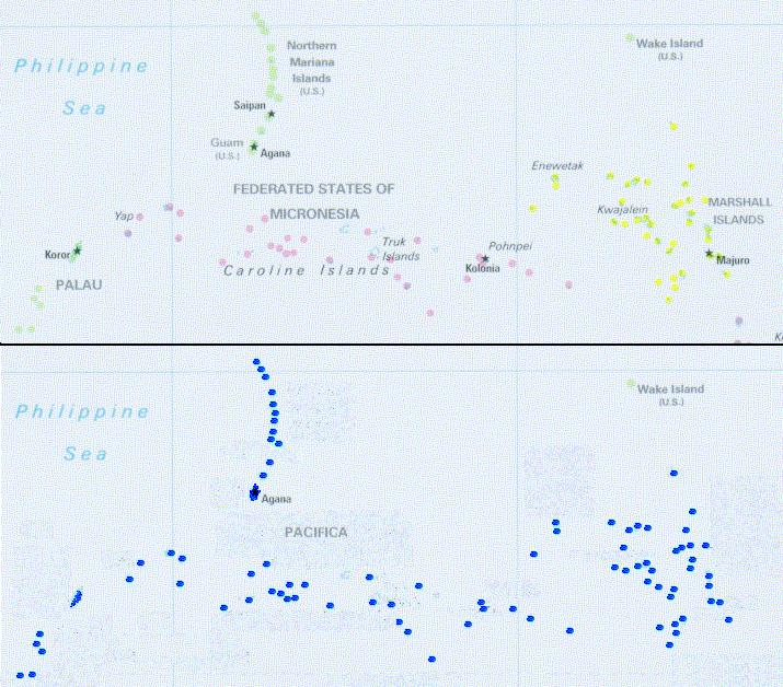 This map shows what a hypothetical merging of Palau, the Federated States of Micronesia, Guam, the Marshall Islands, and the Northern Mariana Islands into a single US state would look like.